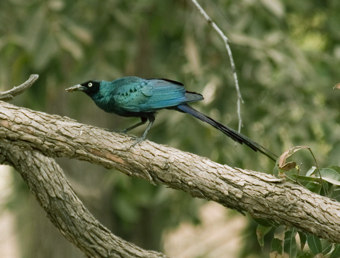 (Thomas J. Haslam, In January 2007, I took this photo at Parc Forestier de Hann, Dakar, Senegal for Wikipedia. Licensed under CC-BY 2.5 and GFDL. Published to my Flickr account under the same license.) Long-tailed Glossy-starling, Lamprotornis caudatus. Identification by Jimfbleak and apparently the photographer.